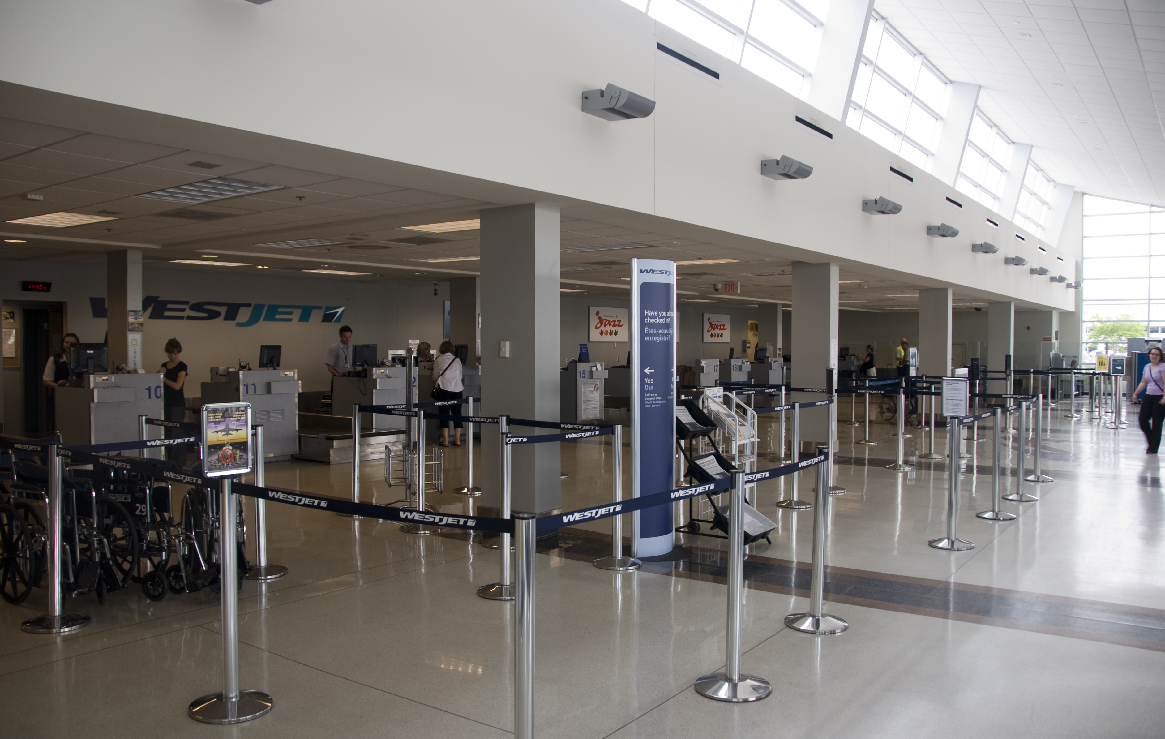 Check-in at London International Airport, Ontario, Canada